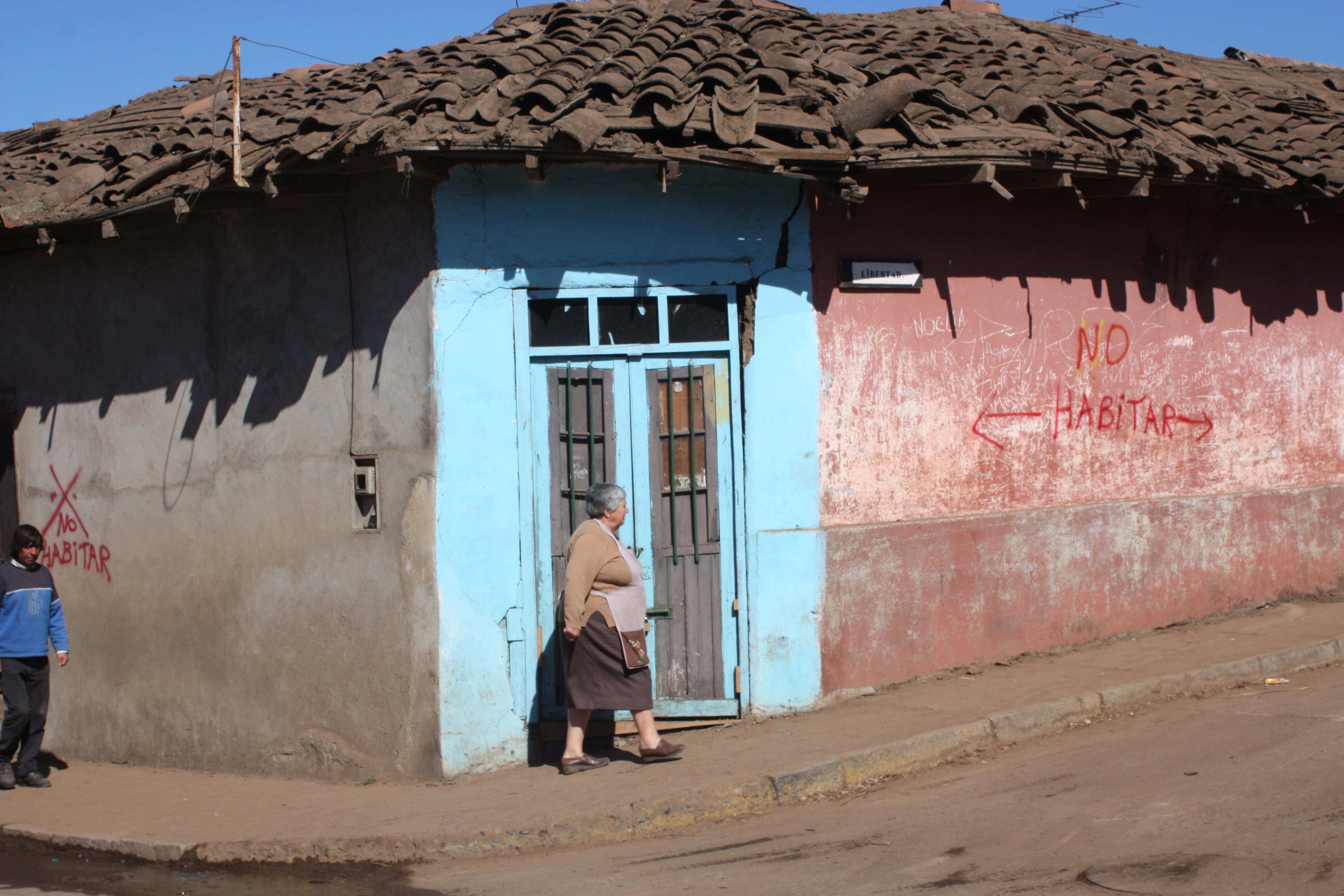 Alerts after the earthquake of 2010 in Chile